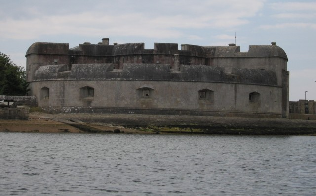 Portland Castle